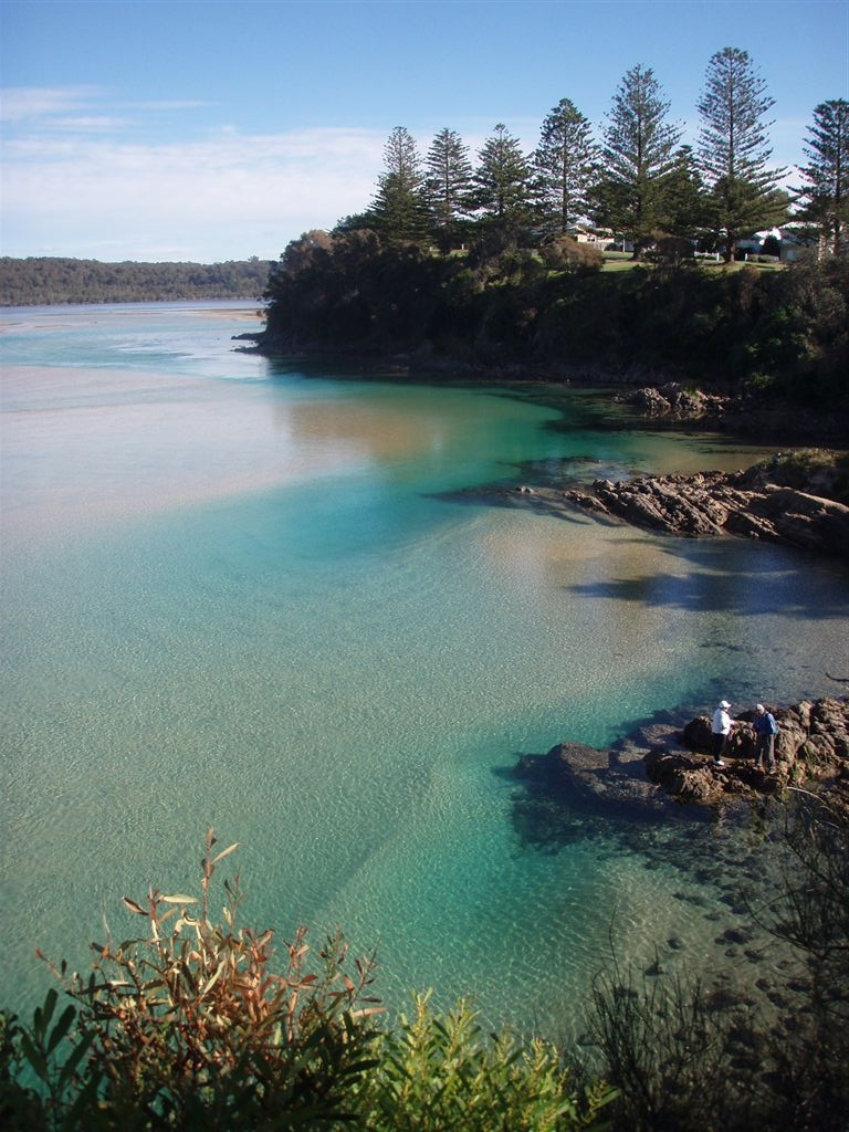 Tuross Head rivermouth